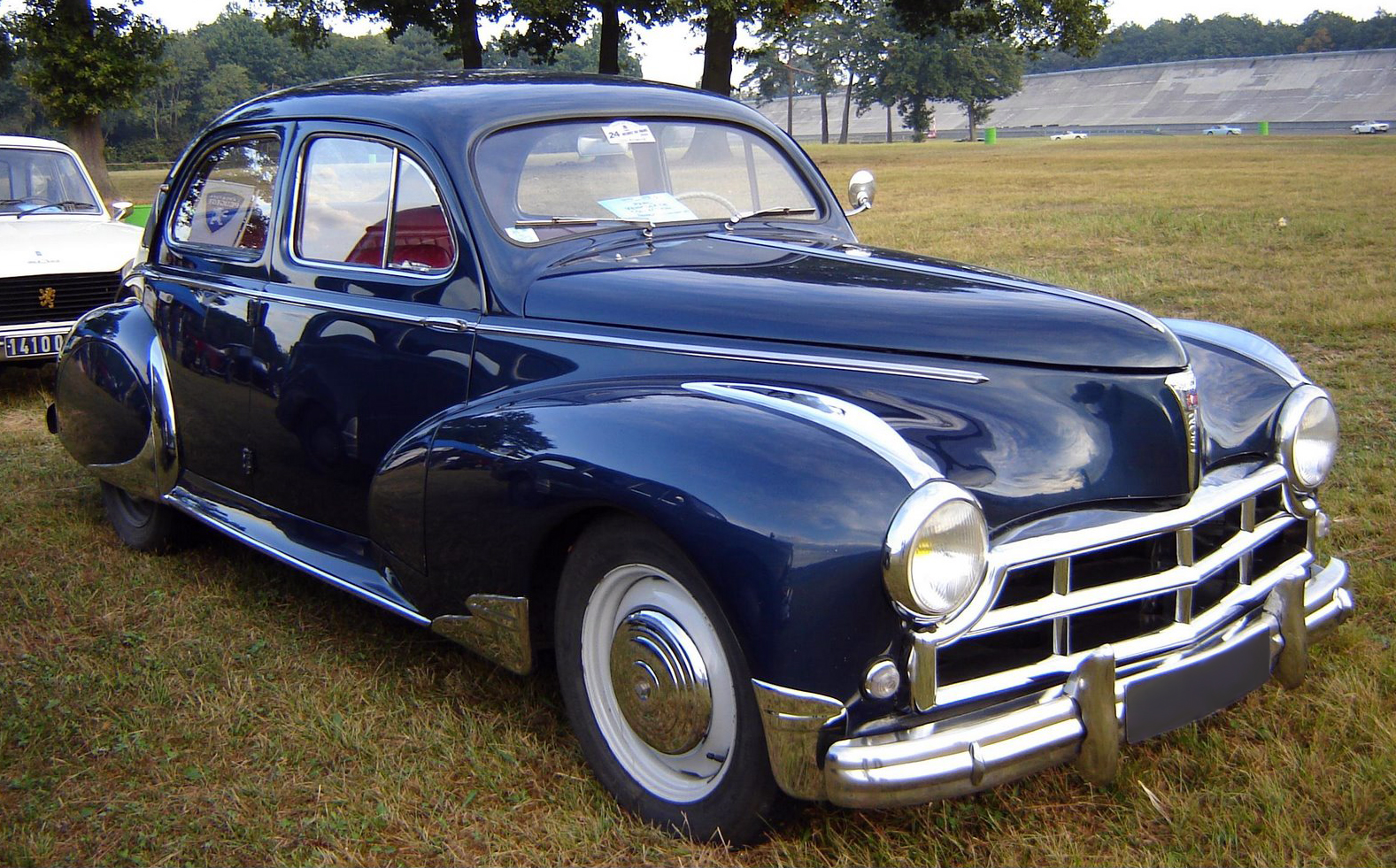 Peugeot 203 Darl'Mat Berline at the Autodrome de Linas-Montlhéry, 2009